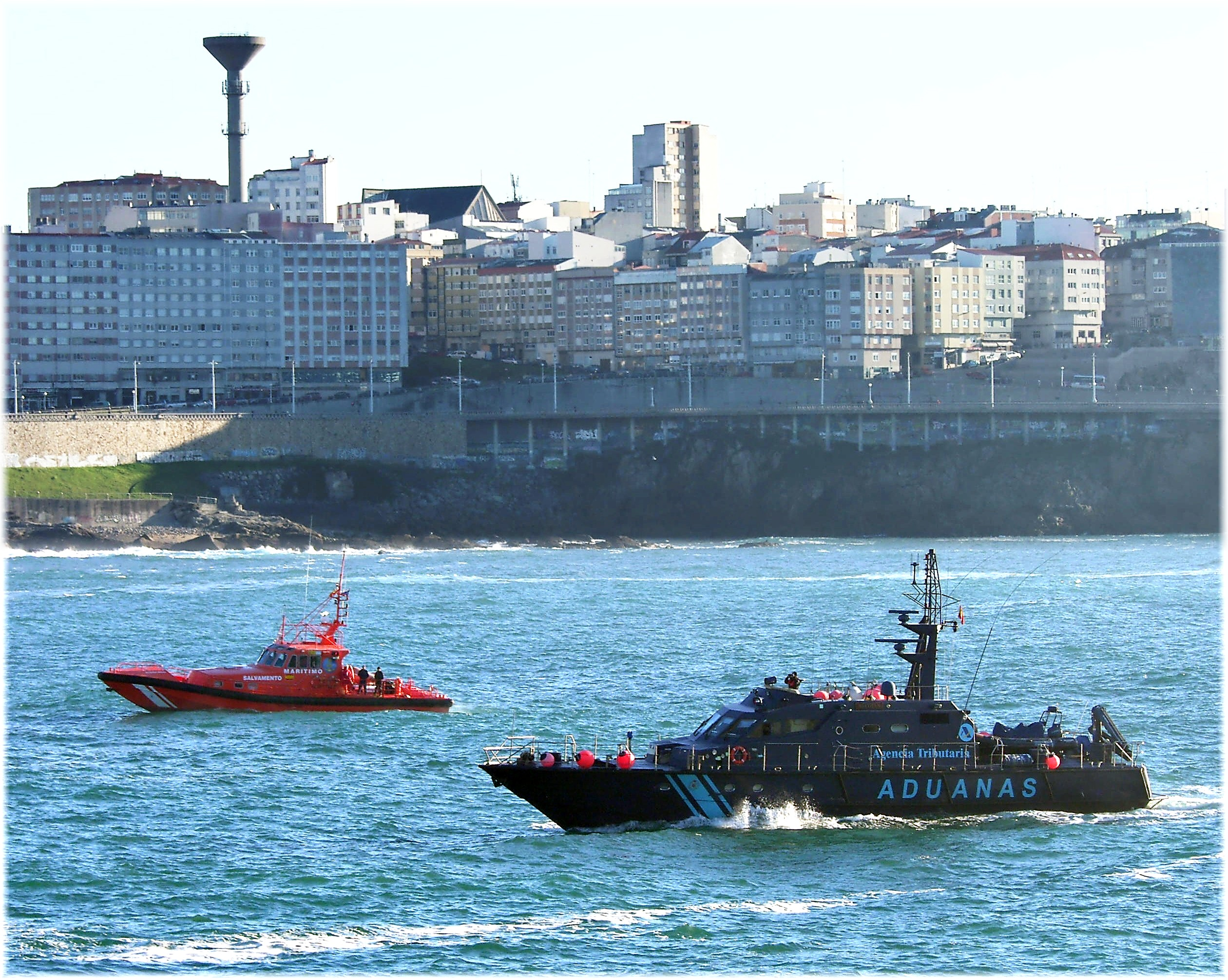 Two young lads after a night drinking decide to bath in Corunna's Orzan beach around 5am. Three policemen come to their rescue and pull one of the out of the raging sea but the three are lost along with the other student. Many young men have done it before in this very same place and some have lost their lives but today four more deaths. Once again.